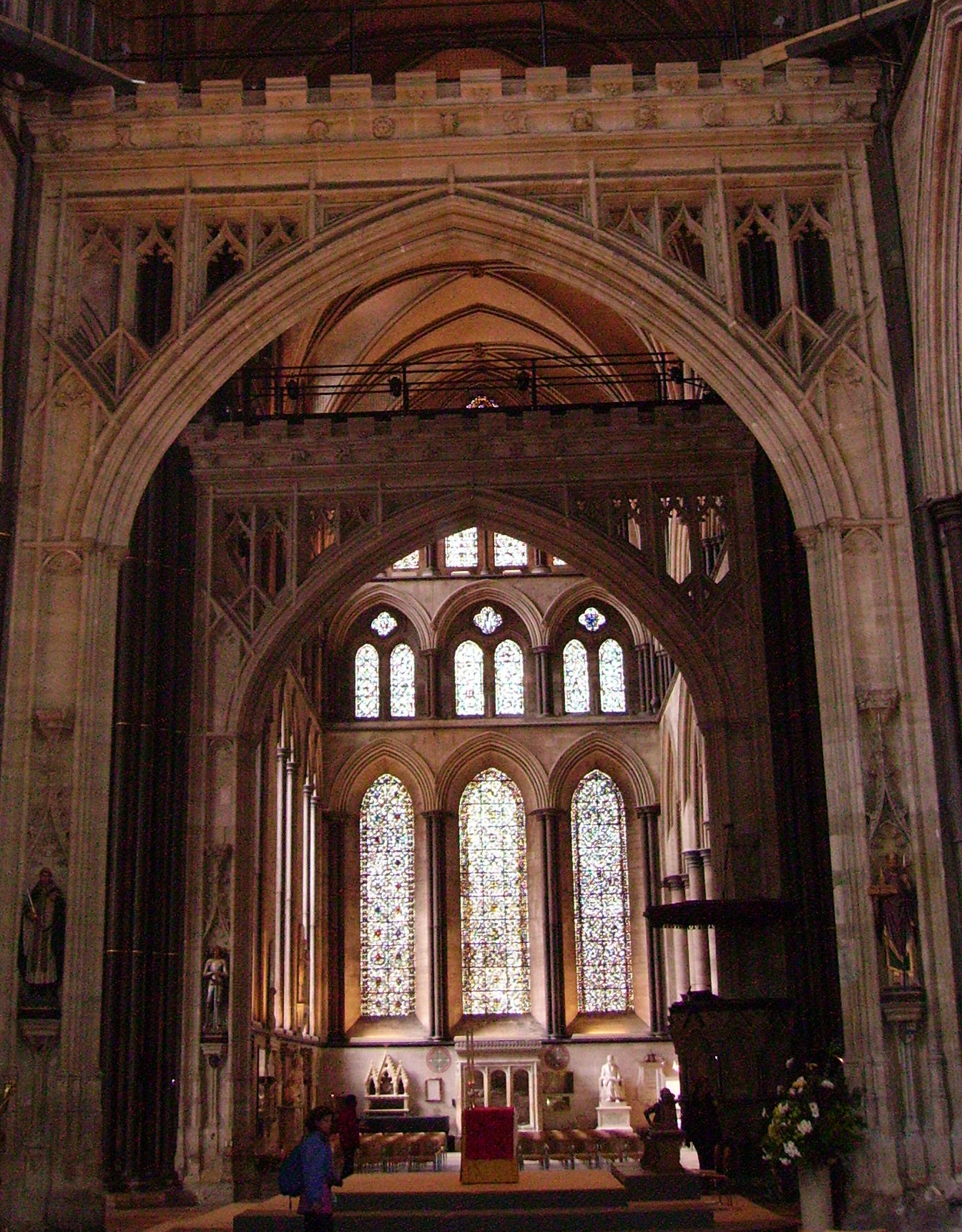 view of Salisbury Cathedral, United Kingdom